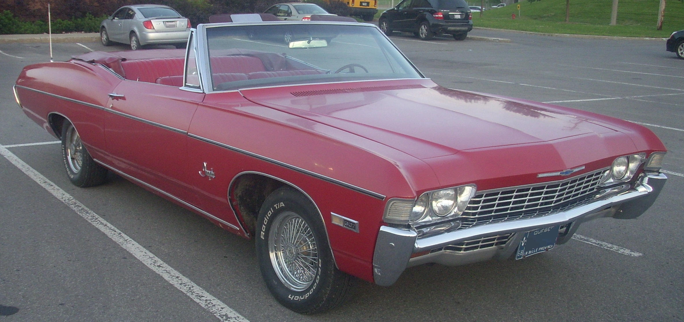 1968 Chevrolet Impala photographed in Kirkland, Quebec, Canada at Auto classique Cheaters Kirkland.